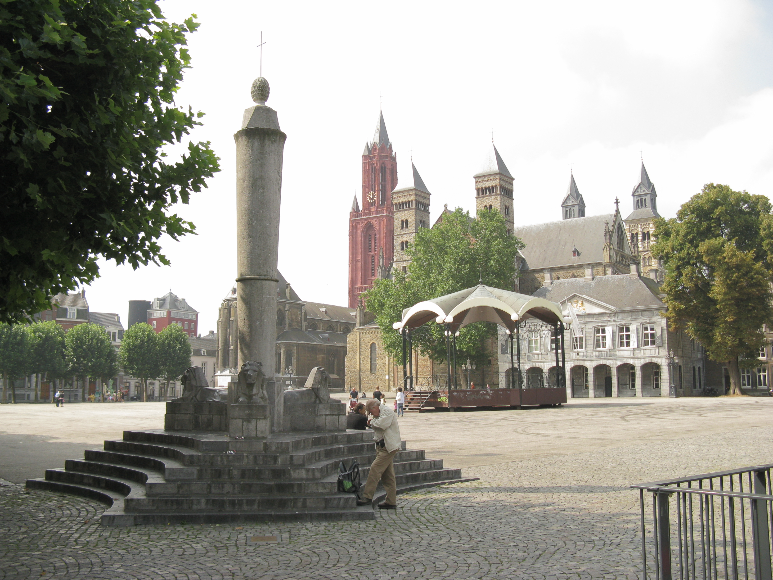 View from the northeast of the Vrijthof in Maastricht, The Netherlands